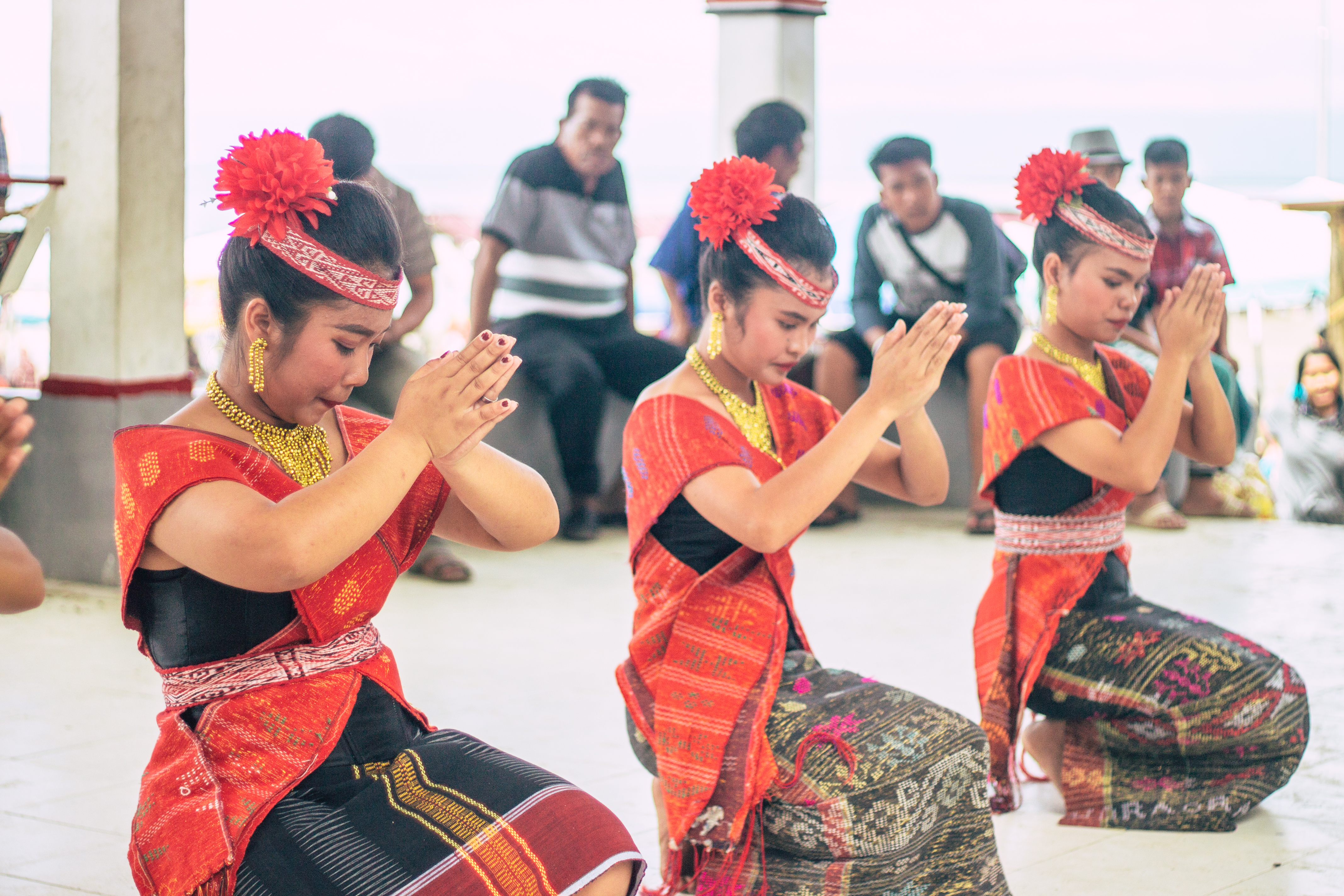 Tor-tor dance is a regional dance from Batak tribe, Indonesia. This pose is a worship or greeting pose from the dancers to the audience.